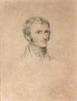 The Honorable James Hewitt, 3rd Viscount Lifford (1783–1855), Sheriff of County Donegal and Resident Commissioner of Excise for Scotland, drawing by Joseph Slater